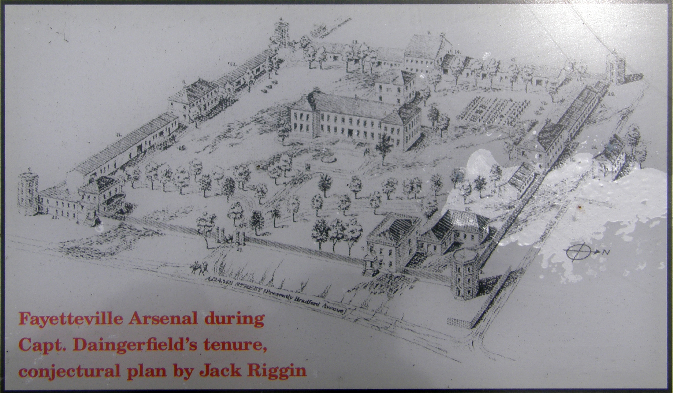 Taken from Civil War Trail marker in Fayetteville, North Carolina.